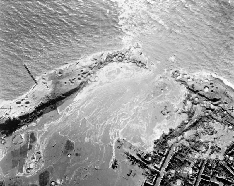 Aerial photograph taken shortly after the daylight attack on the sea-wall at Westkapelle, Walcheren (the Netherlands), showing a breach in the wall at the most westerly tip of the island. The Allies decided that the dykes had to be breached before the Allied assault in order to flood the inland areas and restrict movement by the German defenders. On 3 October 1944, 252 Avro Lancasters and seven De Havilland Mosquitoes of the RAF Bomber Command attacked the sea wall and dykes at Westkapelle, Flushing and Veere.